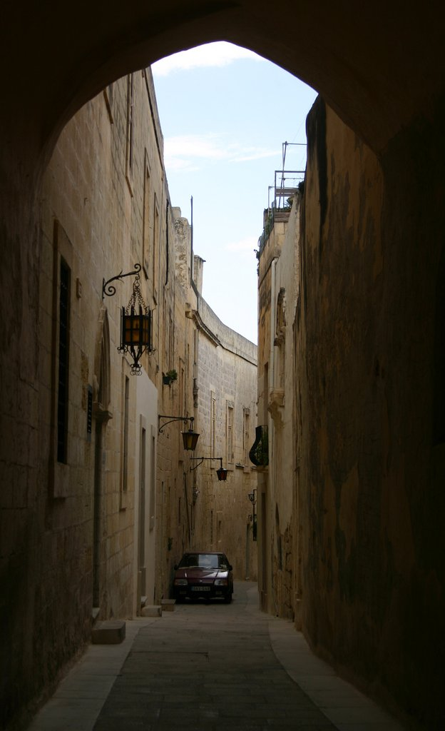 Street in Malta with car.